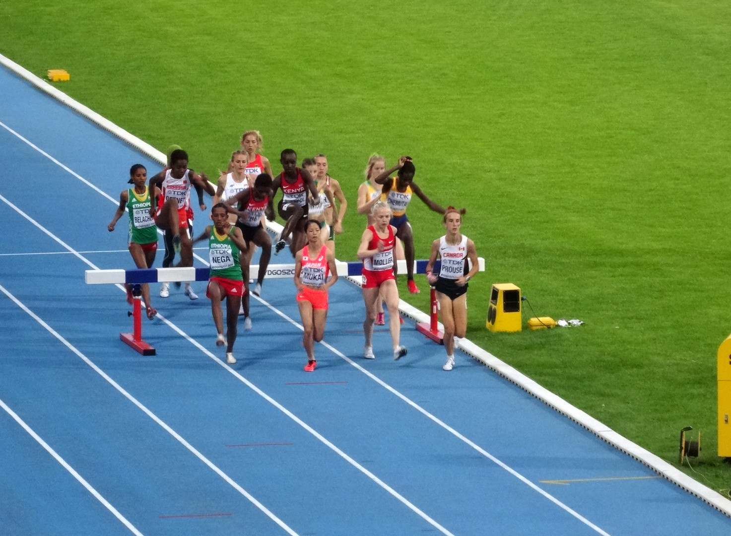 2016 IAAF World U20 Championships in Bydgoszcz, 3000m steeplechase women final